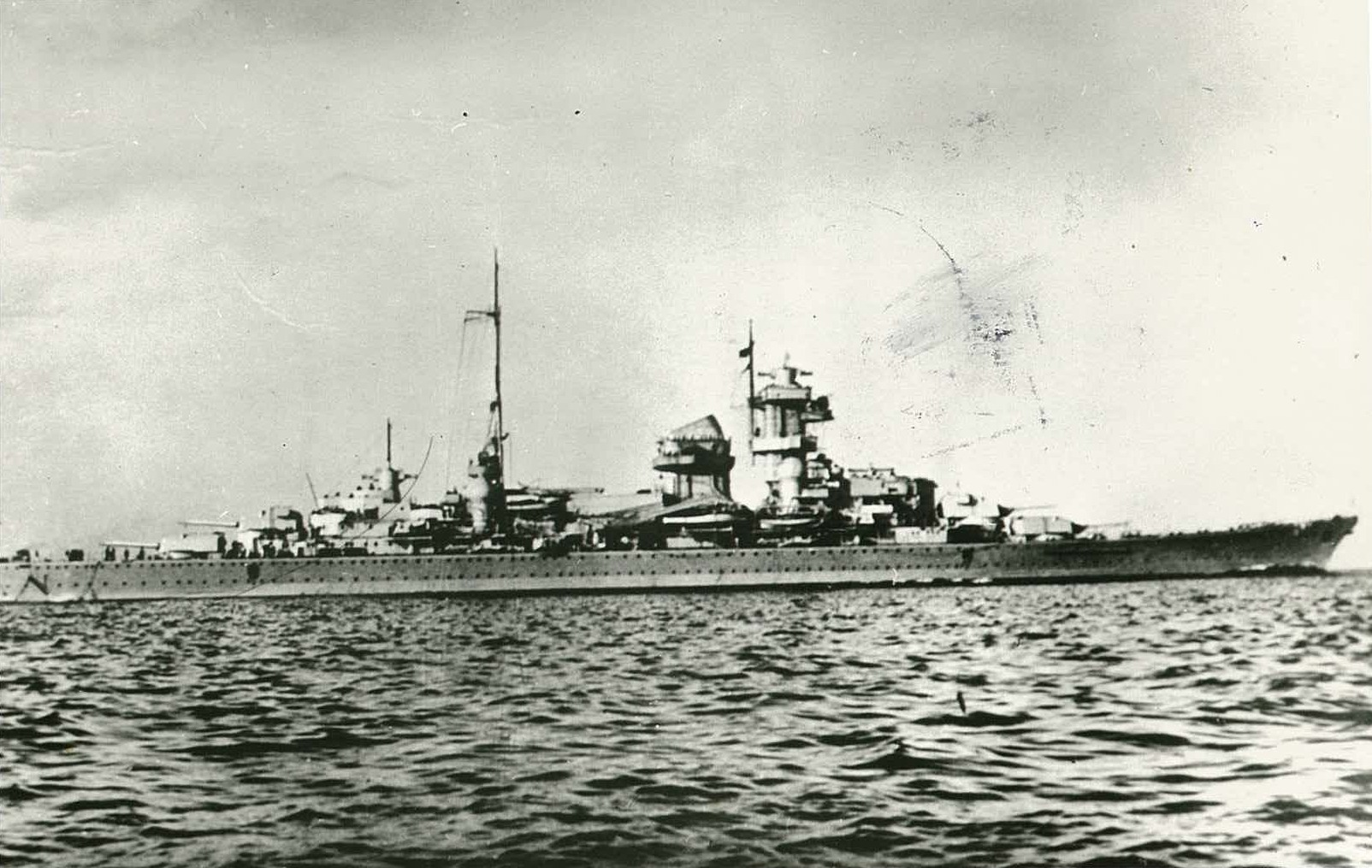 The cruiser Blücher (launched 1937), the lead ship of the German armada headed for Oslo, Norway, was sunk in the Oslofjord by Norwegian military at Oscarsborg Fortress during the Battle of Drøbak Sound on 9 April 1940, the first day of the German invasion of Norway (part of the Norwegian Campaign in World War II). By sinking the ship the Norwegian king and government were saved from being taken captive in the first hours of the invasion. The number of casualties is unknown, but the loss of life probably ranges between 600 and 1,000 soldiers and sailors. The wreck remains on the bottom of the Oslofjord. Photo from Flickr album "Sjøfart i krig" by Riksarkivet (National Archives of Norway)